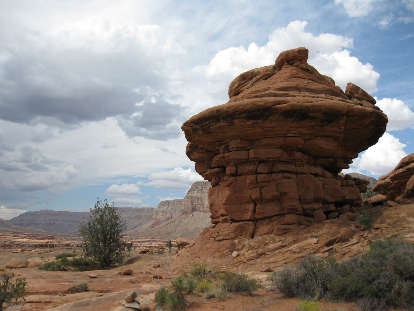 Photograph of Kanab Creek Wilderness. Please give credit to: U.S. Forest Service, Southwestern Region, Kaibab National Forest.